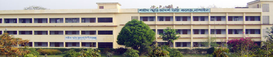 The Main Building of Shahid smiriti Adarsha College